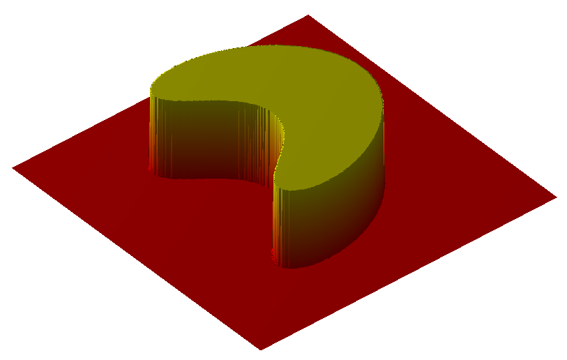 Illustration of an Indicator function.